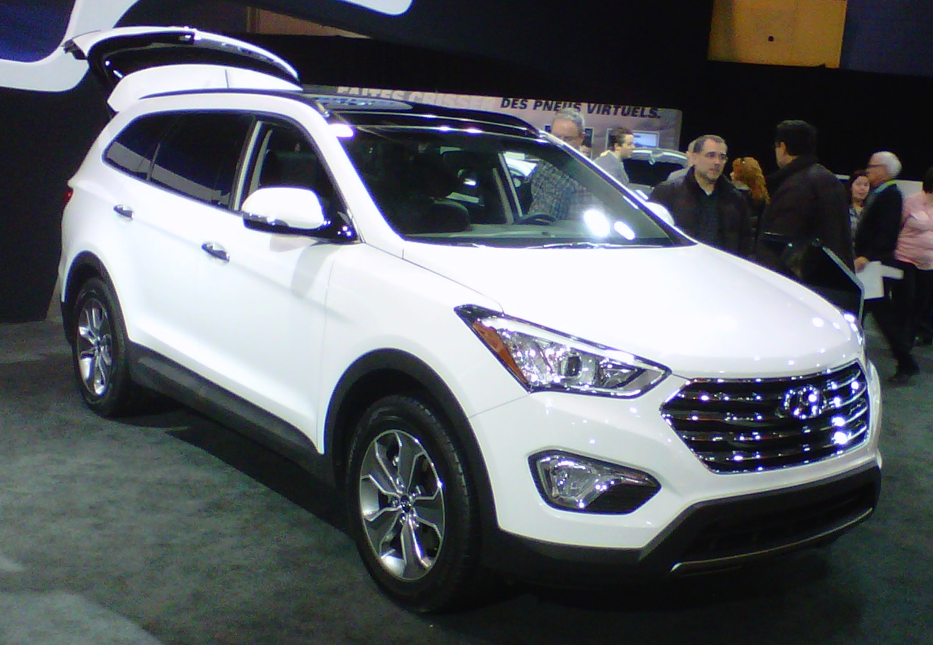 2013 Hyundai Santa Fe photographed in Quebec City, Quebec, Canada at the 2013 Quebec City Auto Show.